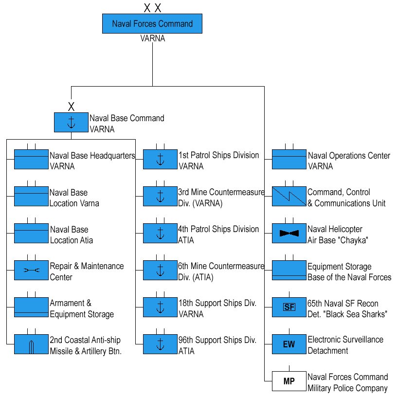 Structure of the Bulgarian Naval Forces 2018